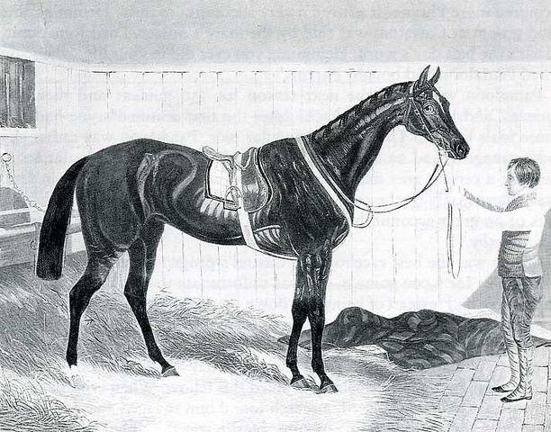 English racehorse Alice Hawthorn. Engraving. circa 1845, unknown artist.